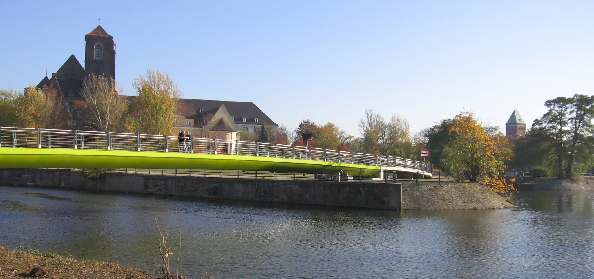 Wrocław, Poland pedestrian bridge between Odra-River islands: Wyspa Słodowa and Wyspa Piasek